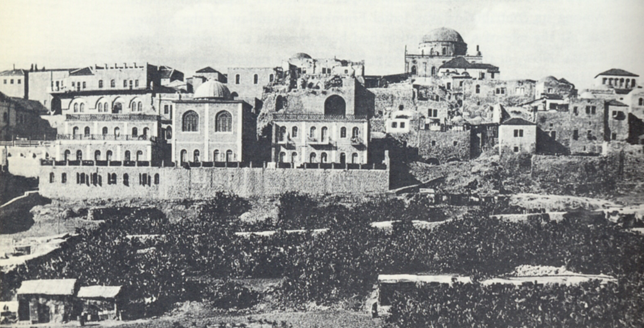 Porat Yosef Yeshiva in the old city of Jerusaelm as it stood before 1948.